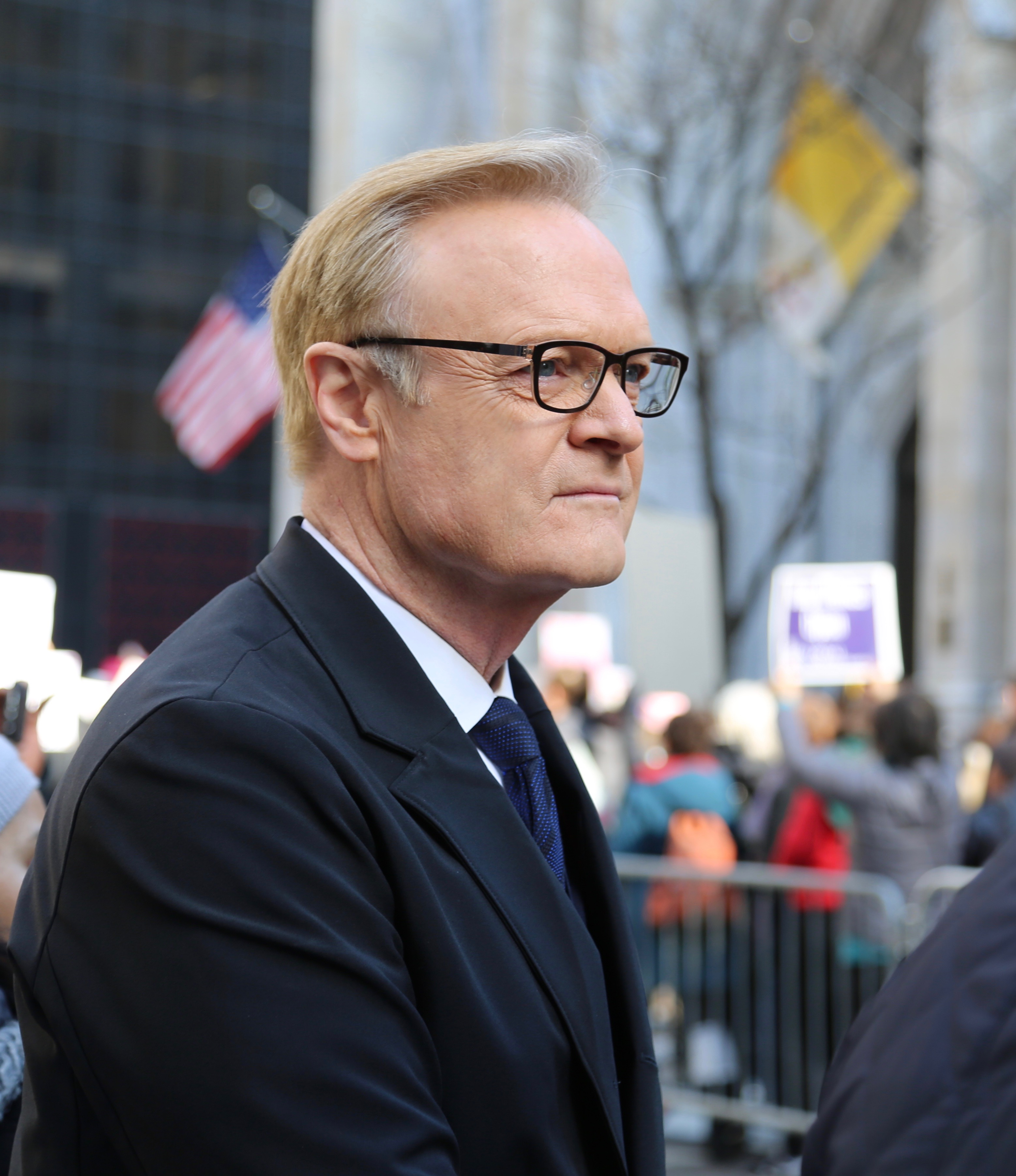 Lawrence O'Donnell at the NYC Women's March on 5th Ave. Jan 21st, 2017